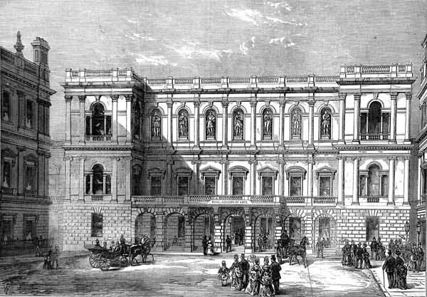 The facade of the original main block of Burlington House, London, England with the recently added extra storey and colonnade. Illustrated London News, 1874.